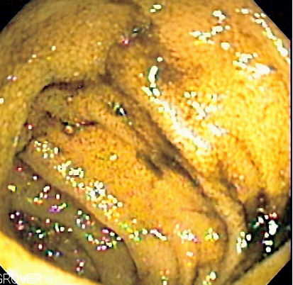 Endoscopic image of normal small bowel mucosa as seen by double balloon enteroscopy. Released into public domain on permission of patient -- Samir धर्म 08:35, 7 June 2006 (UTC)